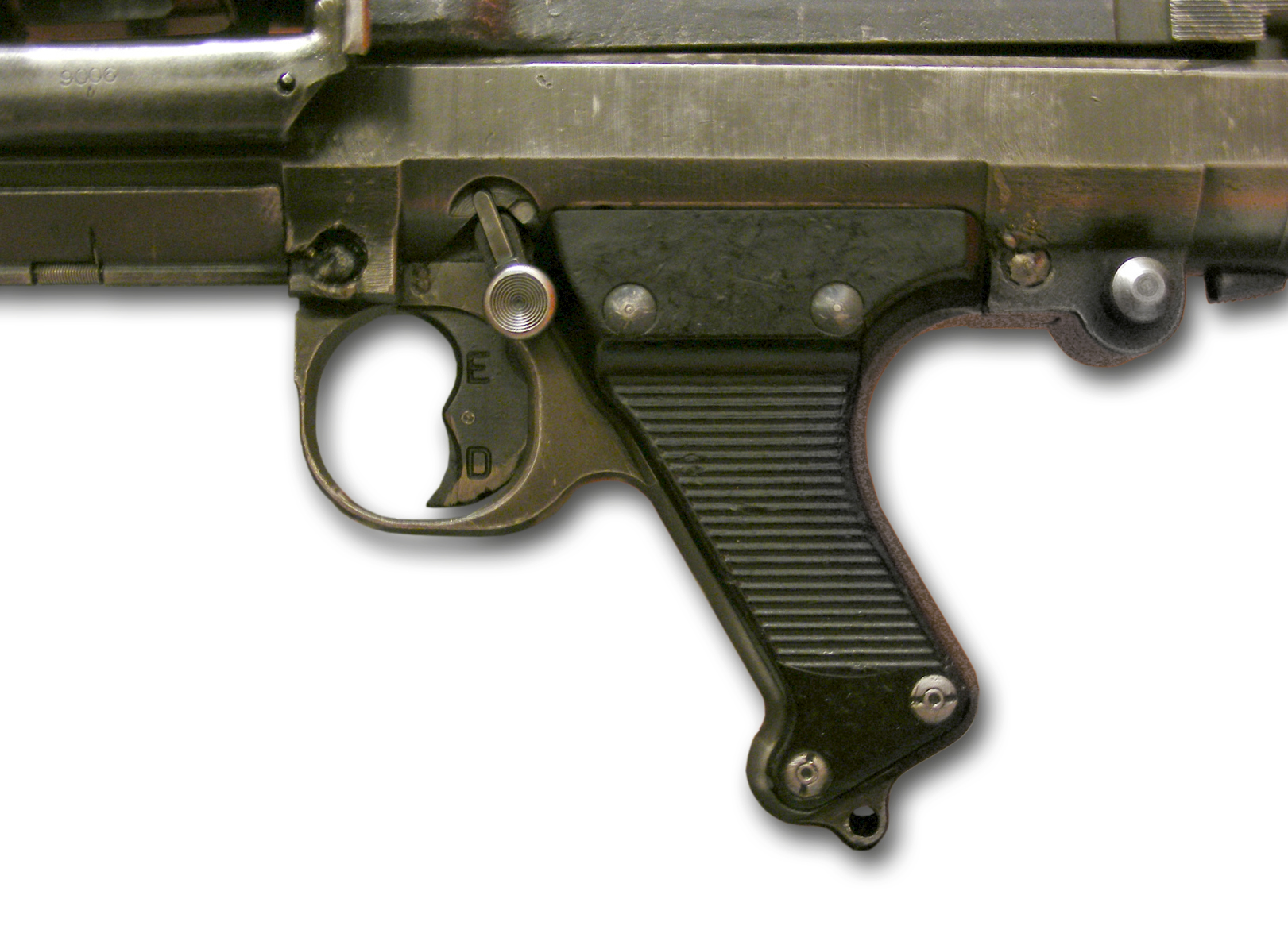 Trigger of German MG 34 machine gun, displayed in Royal Canadian Regiment Museum in London, Ontario. Photo taken on April 27, 2008. Source: Photo by me, User:Balcer.